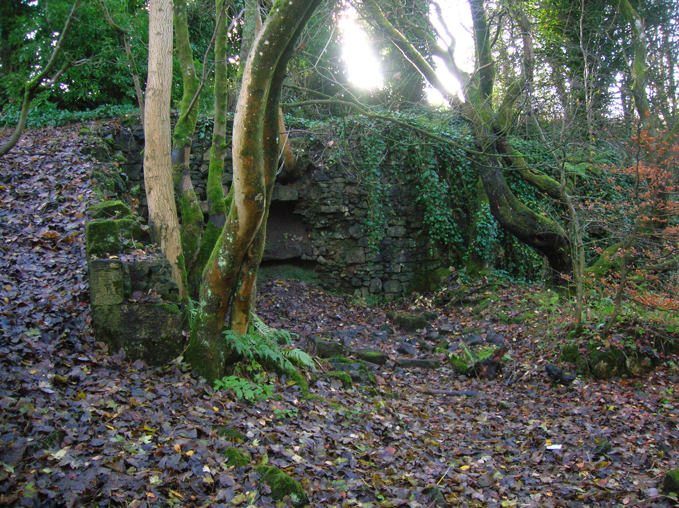 Orry cotton mill ruins, Eaglesham, East Renfrewshire, Scotland.